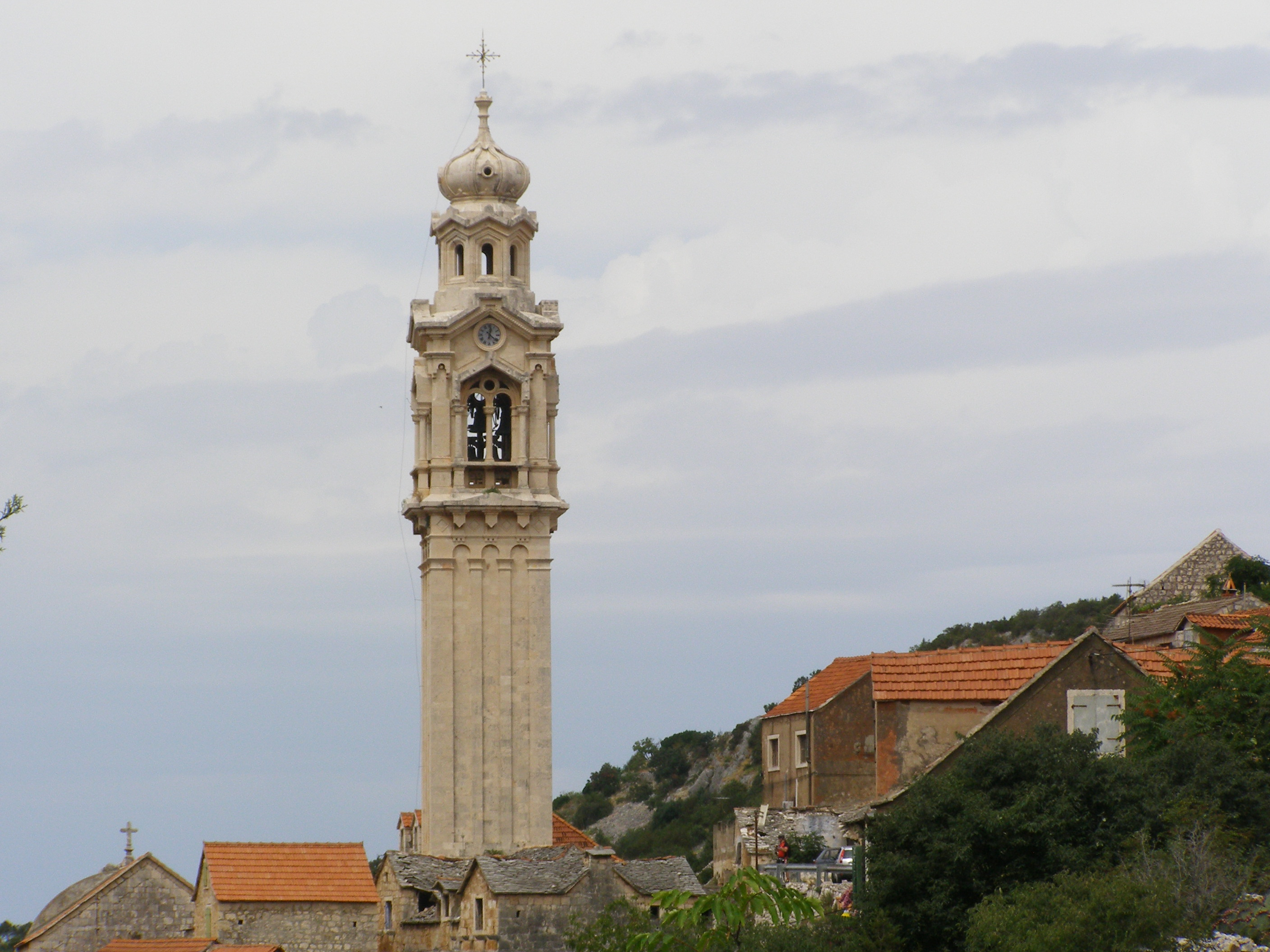 Lozisca Church, Brac, Croatia